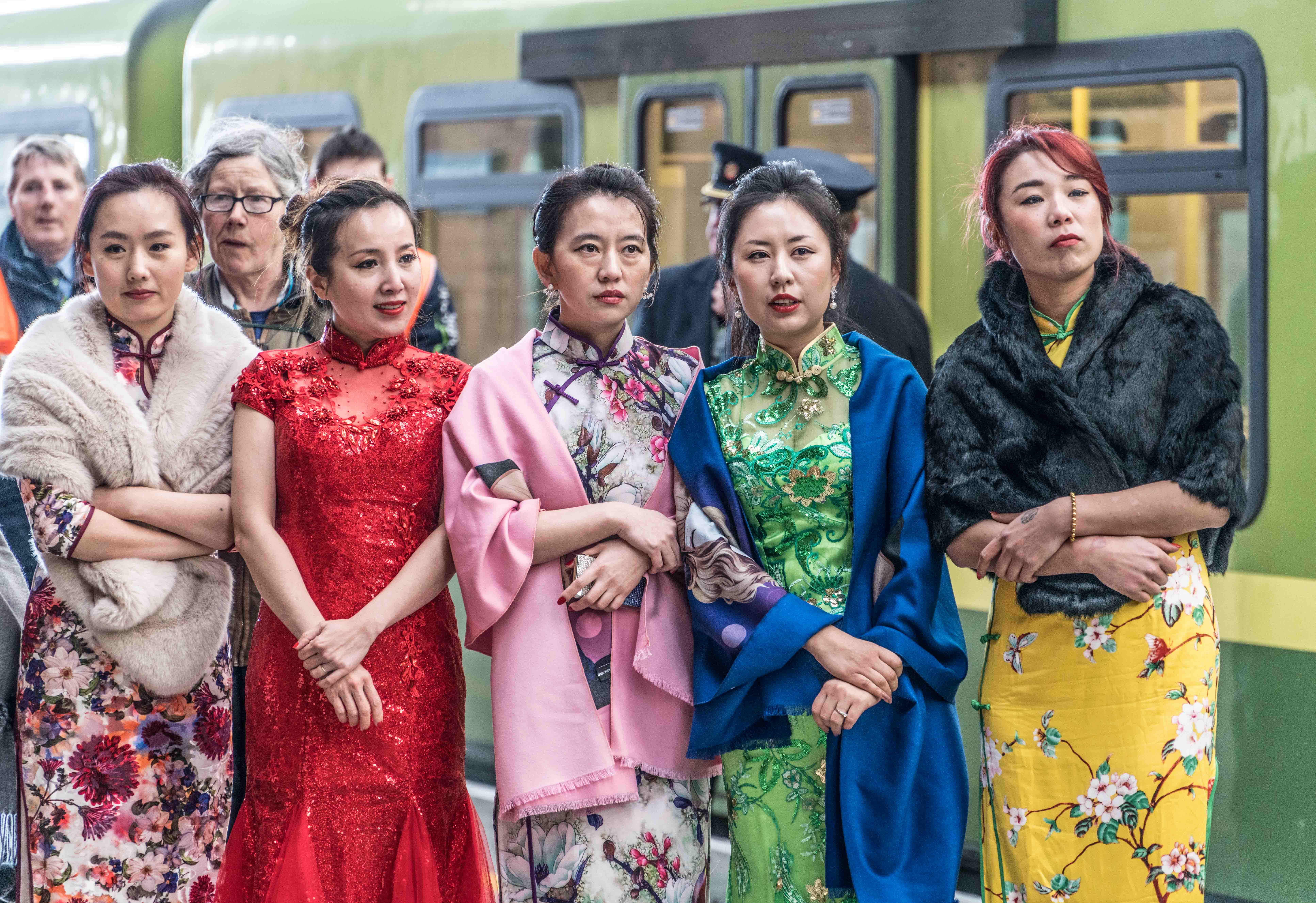 his morning I was on my way to Howth when a nice Chinese lady, thinking that I was a press photographer, invited me to photograph the official Chinese delegation so took the opportunity even though I did not have an ideal lens [my fall-back excuse for not being a good portrait photographer]. A delegation from the Shanghai Metro were in Connolly Station this morning as the two-week-long tribute to Chinese poetry was launched. The China Cheongsam Association of Ireland performed traditional Chinese music and dance on platform four from 11am, and there was some Chinese cuisine samples for passengers who got there early as i was planning to have lunch in Howth I did not try the food. Last year Chinese commuters in the city of Shanghai were treated to the poetry of W.B. Yeats as they travelled on board the local Metro service and as they passed through various stations as part of the Yeats 2015 celebrations. This year CIE will continue the relationship by displaying famous Chinese poems on board the DART and at Stations during February to mark Chinese New Year. The poems will be displayed in Chinese and English.